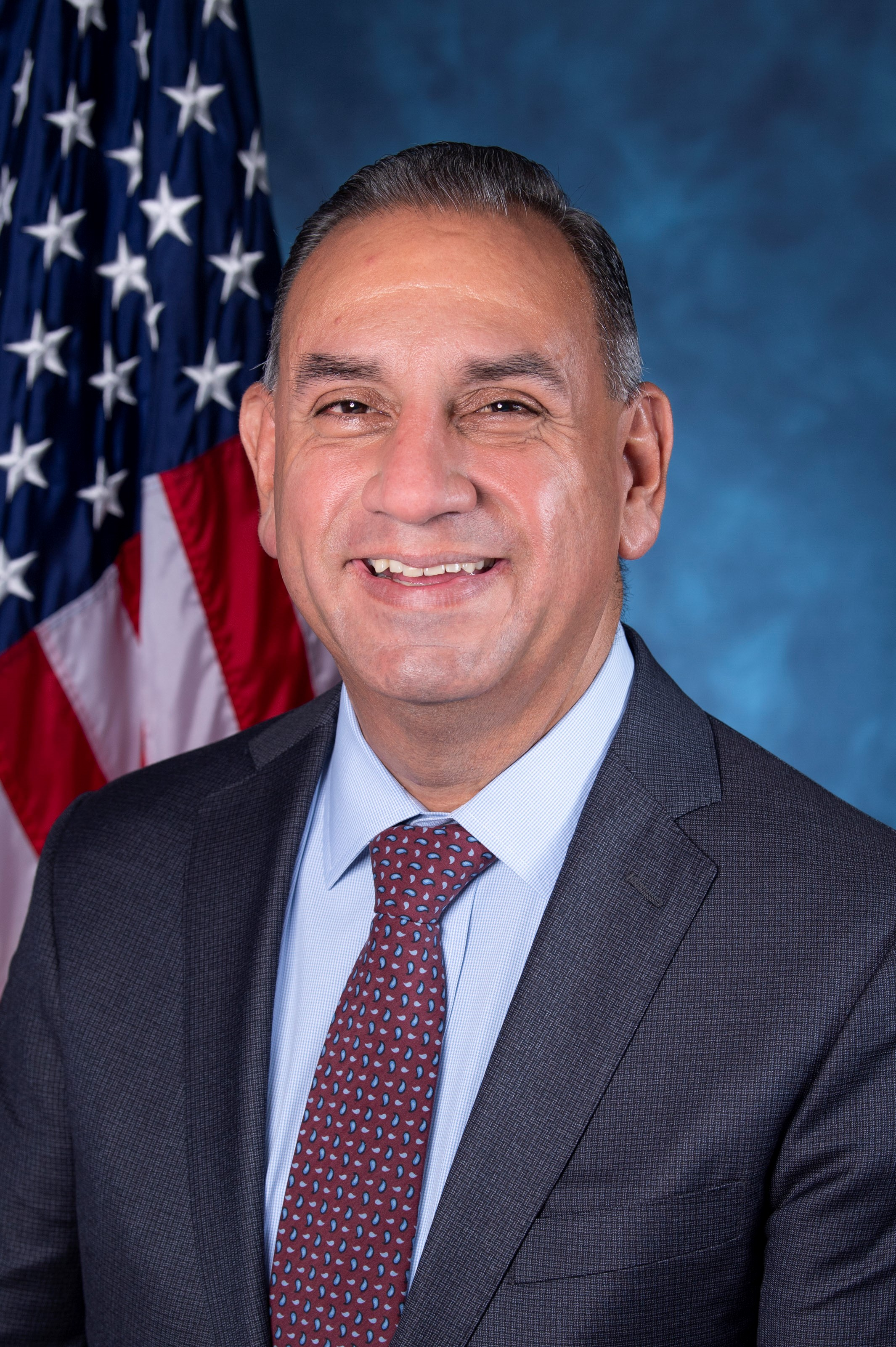 Photo of Rep. Gil Cisneros (D-CA39)